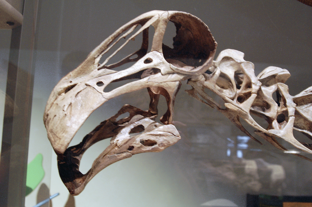 Skull of Nigersaurus taqueti at the Australian Museum, Sydney.